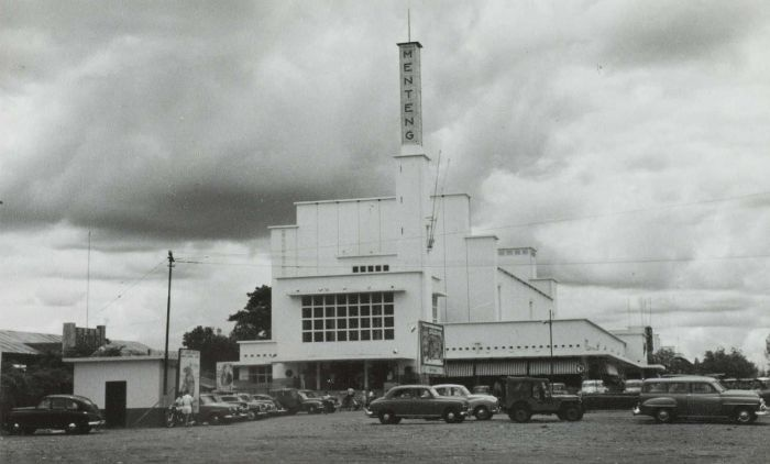 Cinema 'Menteng' at Djakarta